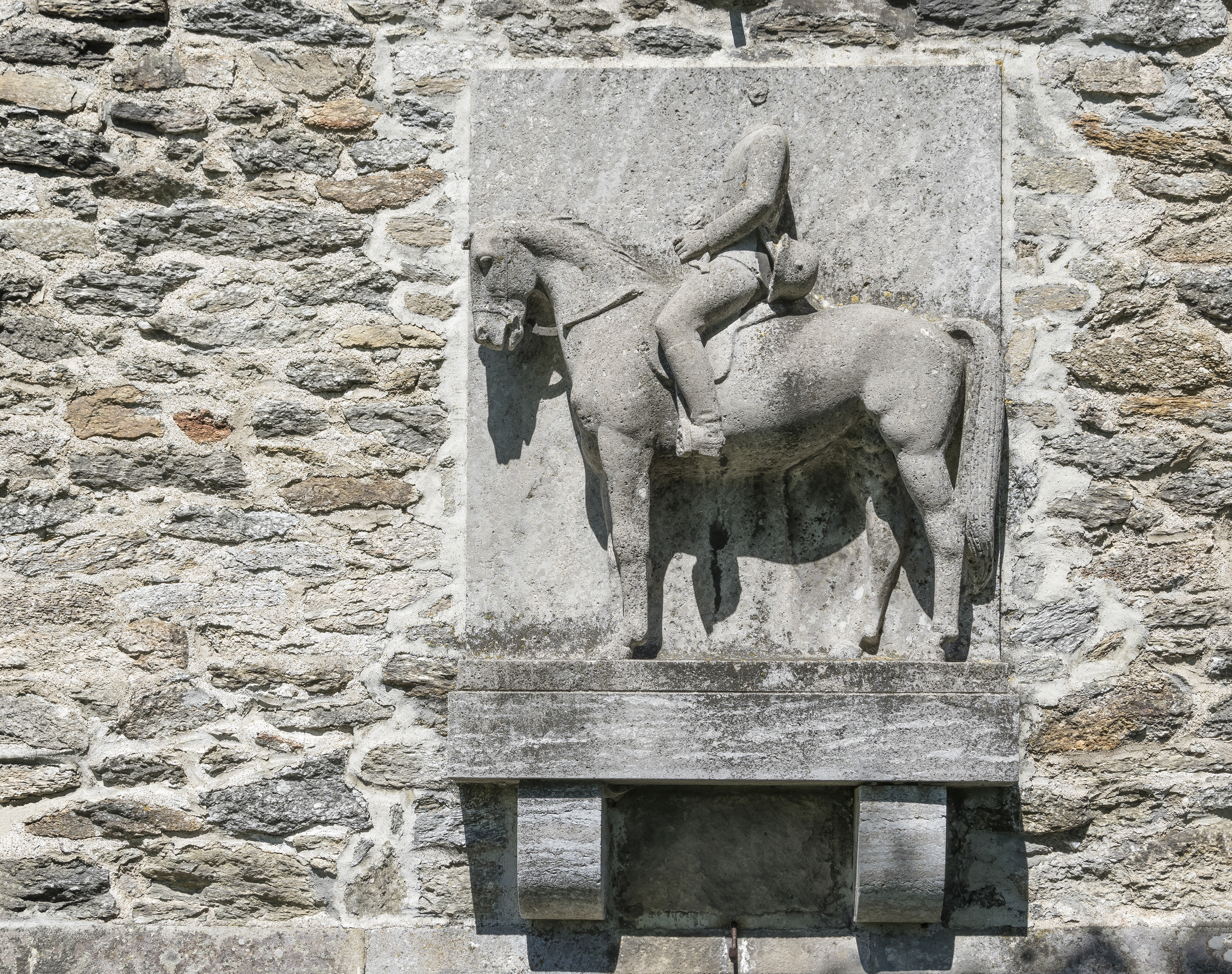 Saint Anthony of Padua church in Lasówka